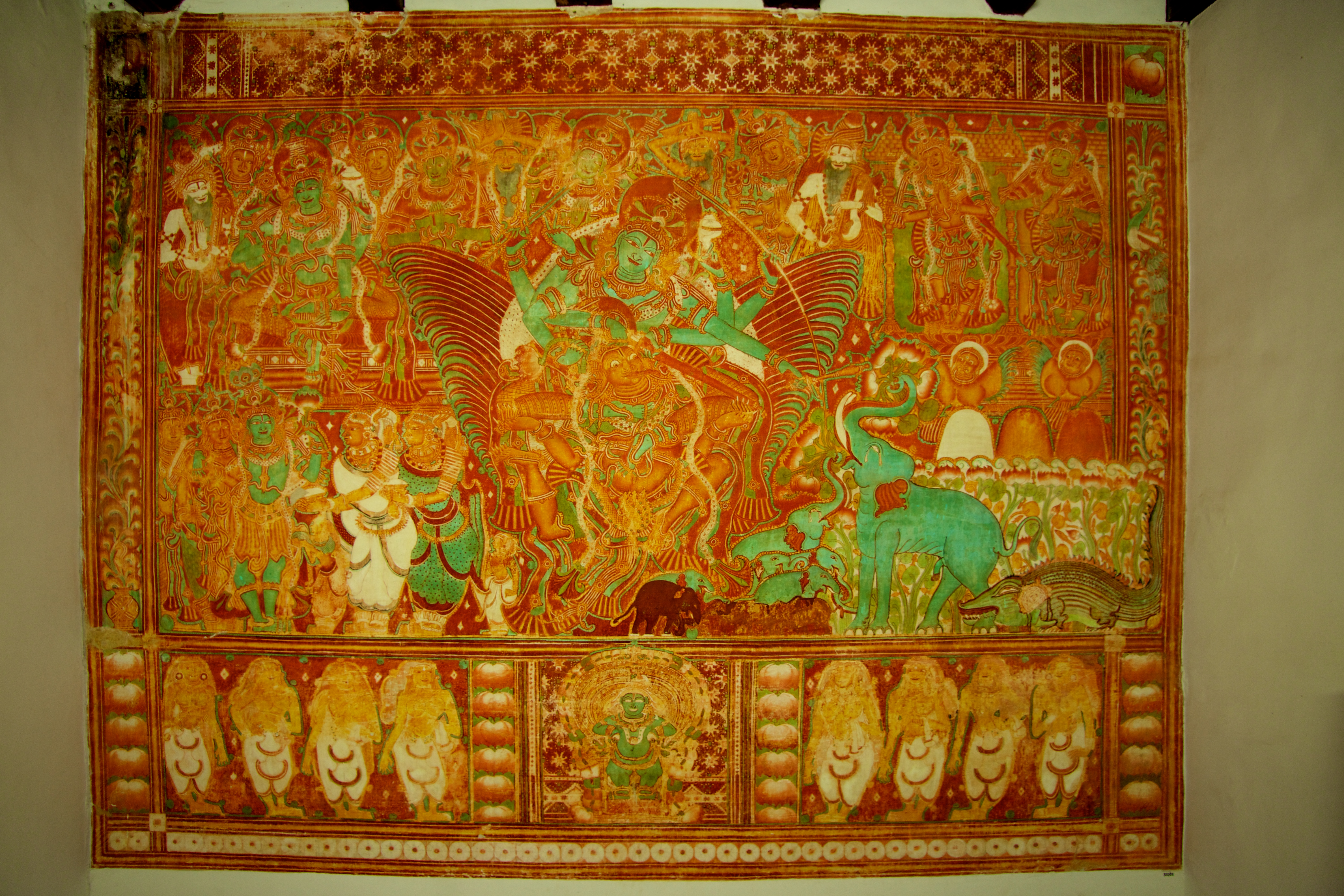 Gajendra Moksham - which is the largest single piece of mural painting so far discovered in Kerala. This 154 Sq. Ft. sized mural drawn with natural colour dyes. The literal meaning of 'Gajendra Moksham' is the "salvation or Moksha of the elephant king Gajendra." The theme of the mural is mythological and depicts an elephant saluting Lord Vishnu in devotion while the other minor gods, goddesses and saints look on. Lord Vishnu was the family deity of the Kayamkulam Kings. This mural, in a fusion of colours and expressions, was placed prominently at the entrance to the palace from the pond to enable the kings to worship the deity after their daily ablutions. It is situated in Krishnapuram Palace is a palace and museum located in Kayamkulam near Alappuzha in Alappuzha district, Kerala in South India.